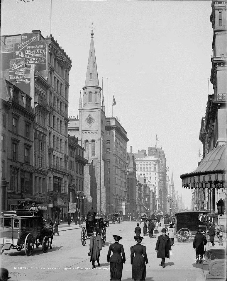 Fifth Avenue and Marble Collegiate Church, New York 1905